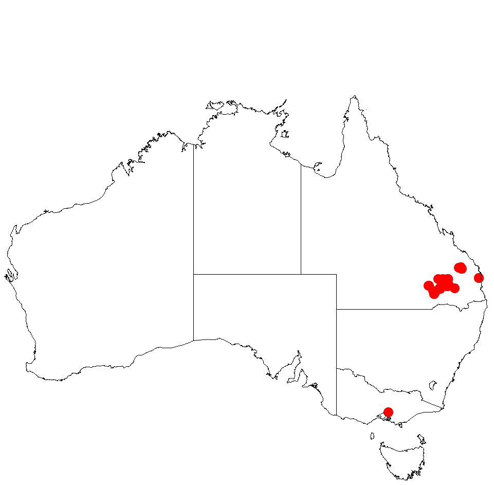 Acacia wardellii occurrence data from Australasia Virtual Herbarium downloaded from on 8 December 2018